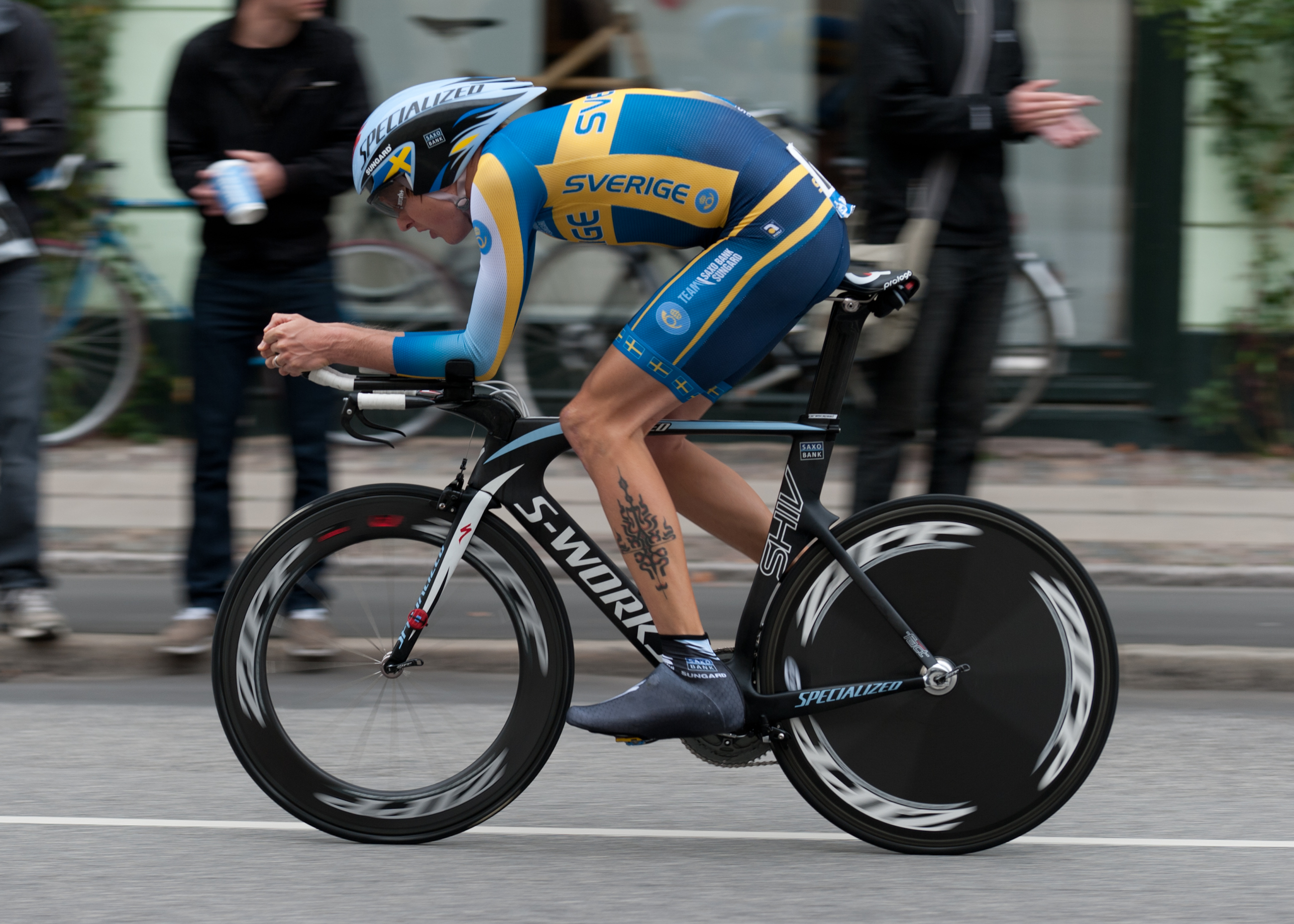 Gustav Larsson at the 2011 UCI Road World Championship in Copenhagen.